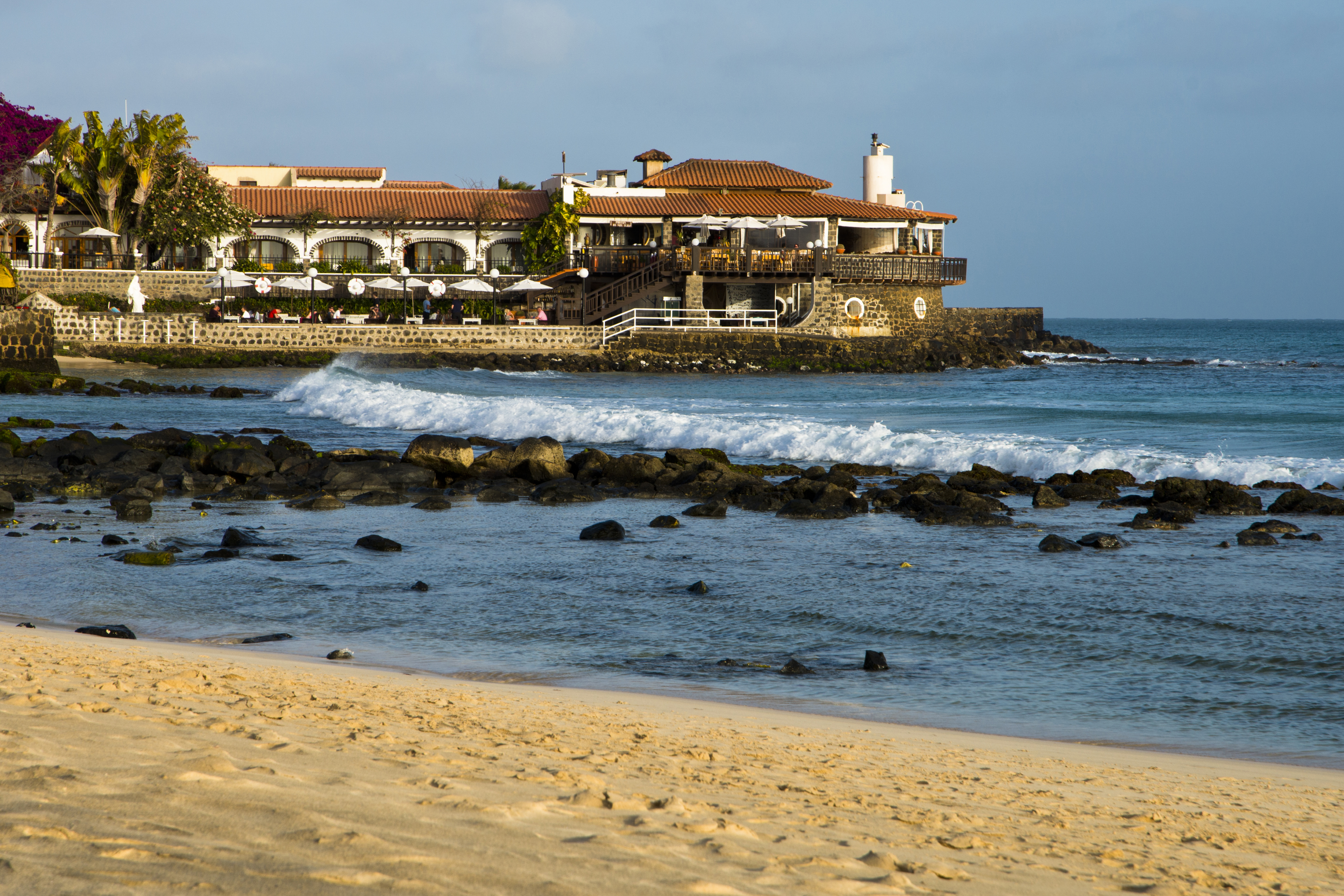 The beach restaurant of Hotel Odjo d'Água, in Santa Maria, Sal, Cape Verde